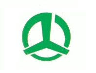 Flag of Yuasa Wakayama